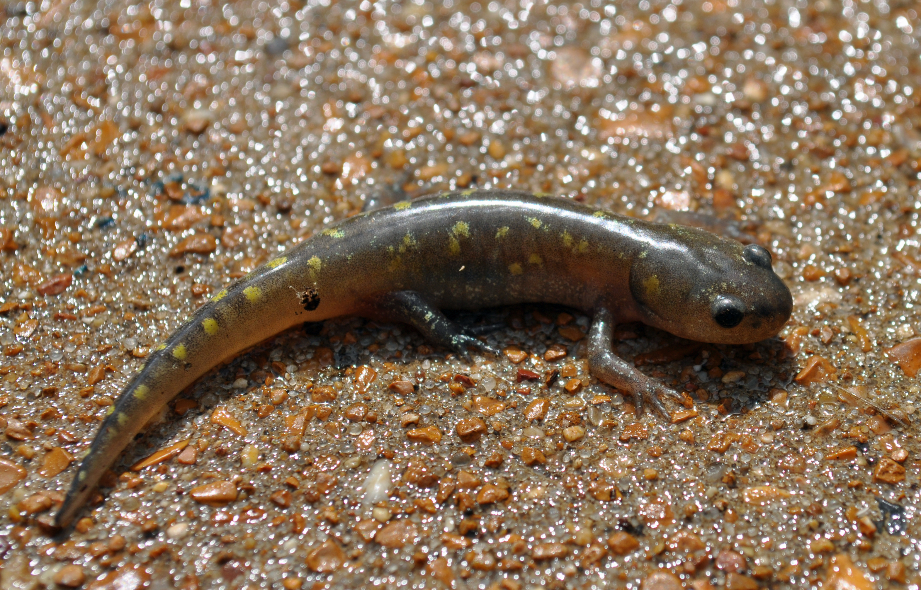 A juvenile spotted salamander (Ambystoma maculatum) in Tyson Research Center, Missouri.